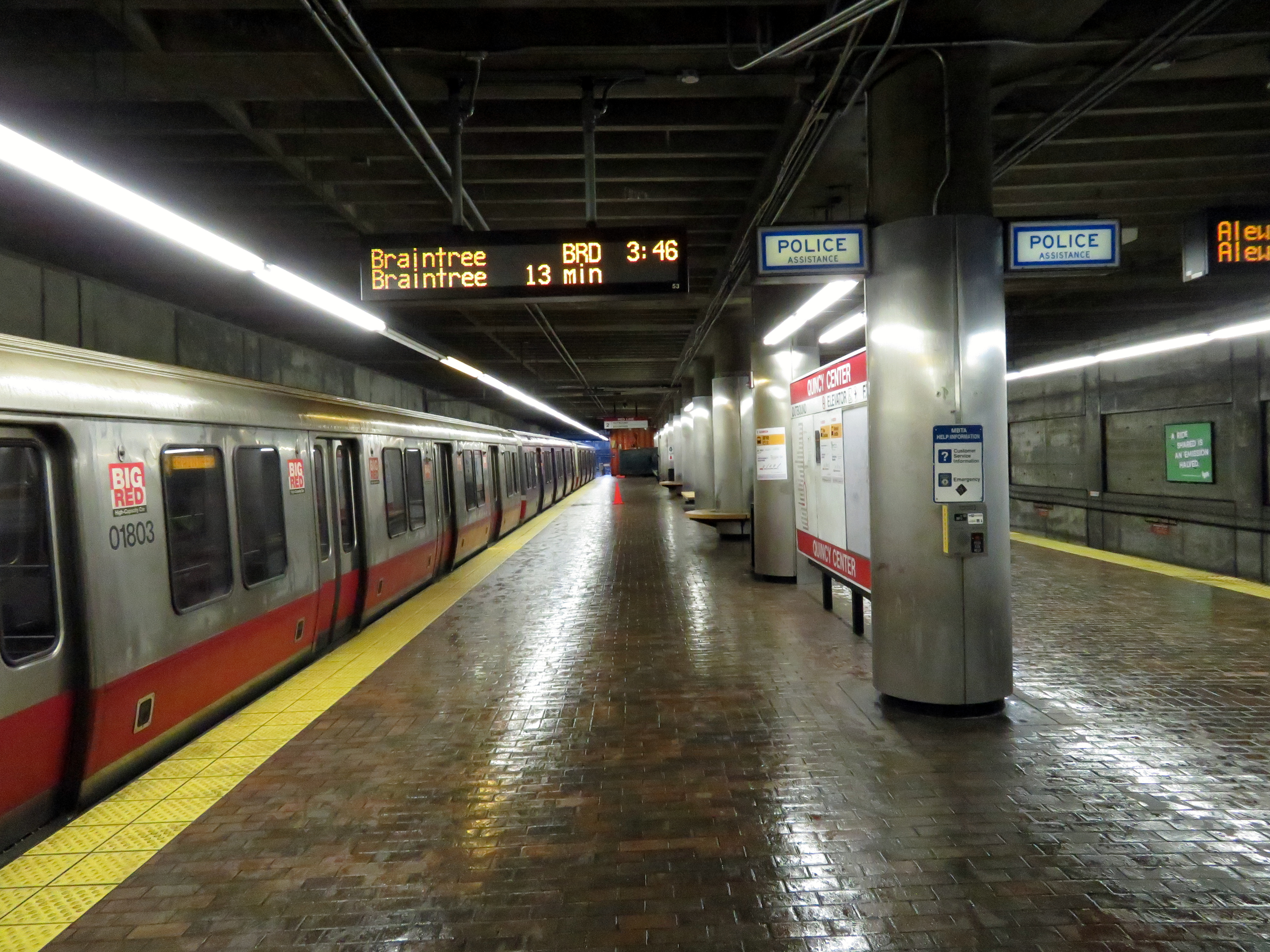 Big Red cars on a Red Line train at Quincy Center station in December 2018